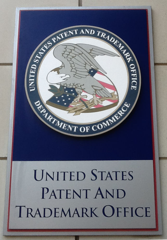 14 12 31 US Patent Office Sign Alexandria VA 01